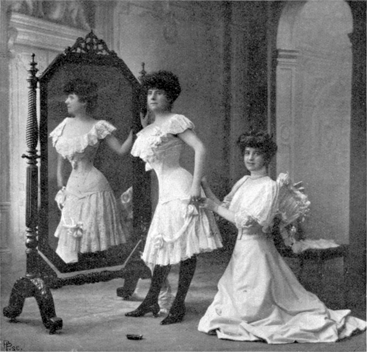 An indiscreet glance at Germaine Delage (9, rue de la Paix, 9) allows us to contemplate the graceful lines of Madamoiselle Marcelle Bordo, of the Capucines Theater, very elegantly fitted by the fashionable young corsetiere herself.